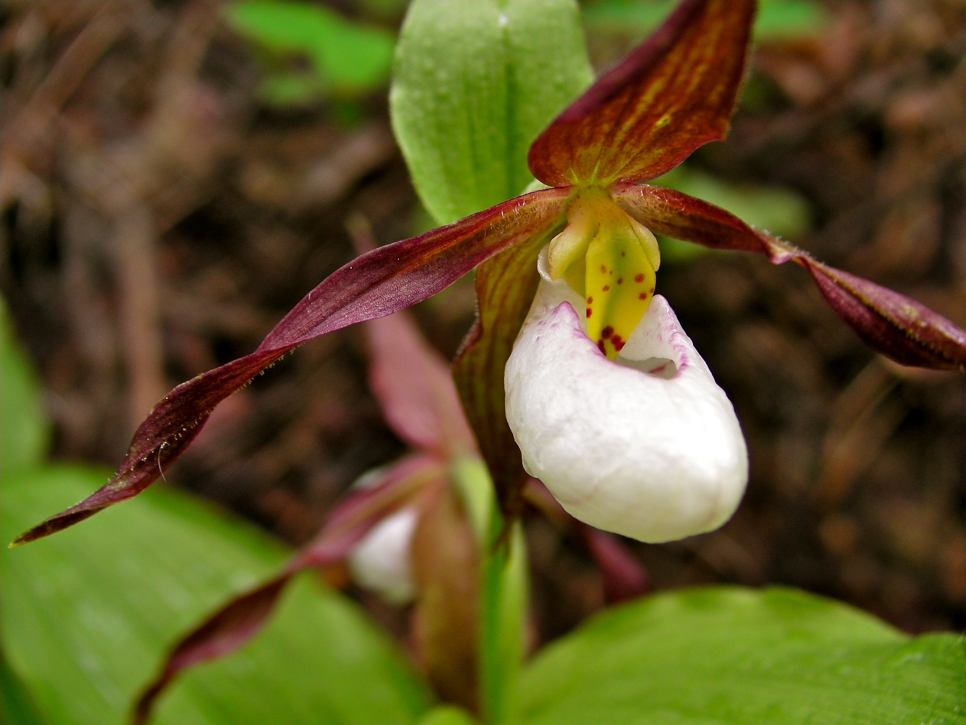 Flower of Cypripedium montanum. Photo taken in the north central Cascades of WA state.